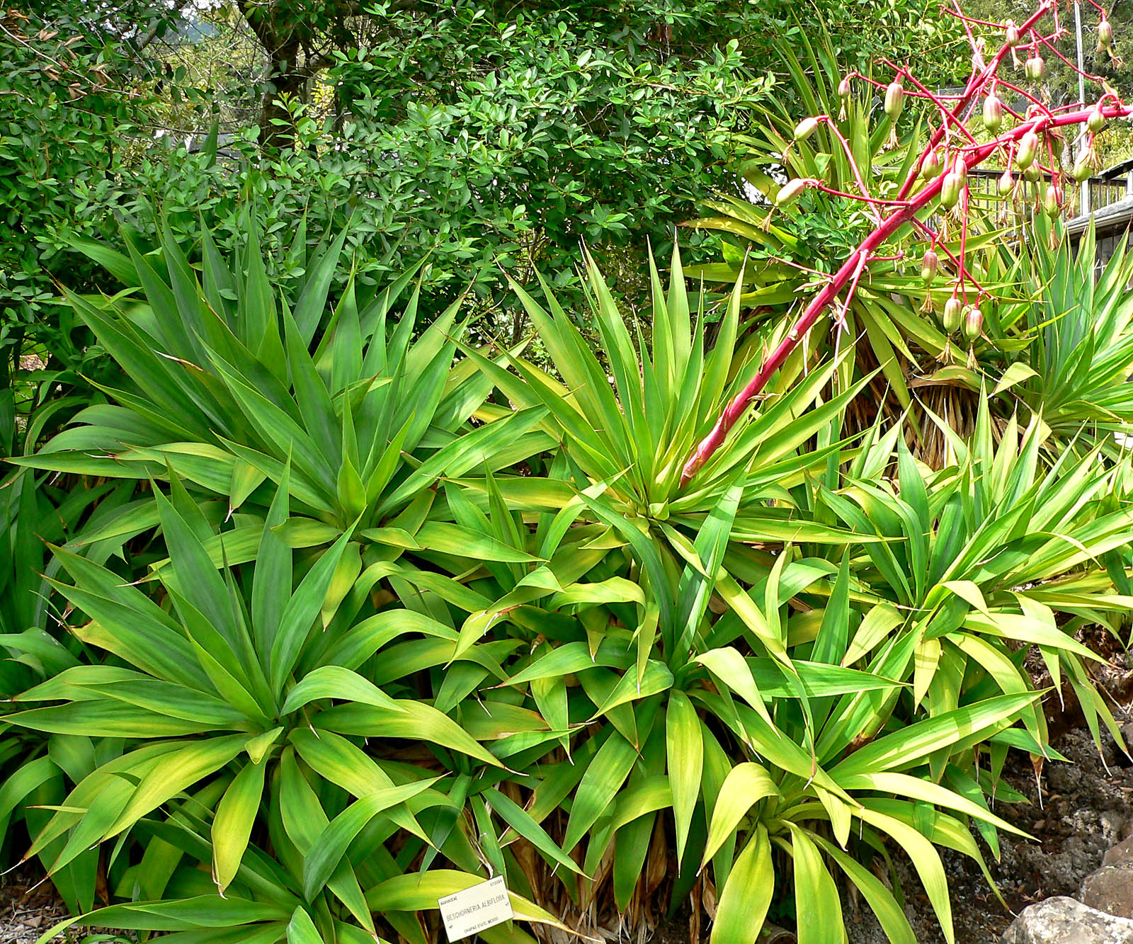 Photo of Beschorneria albiflora at the University of California Botanical Garden